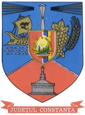 Communist coat of arms of Constanța County, Socialist Republic of Romania.